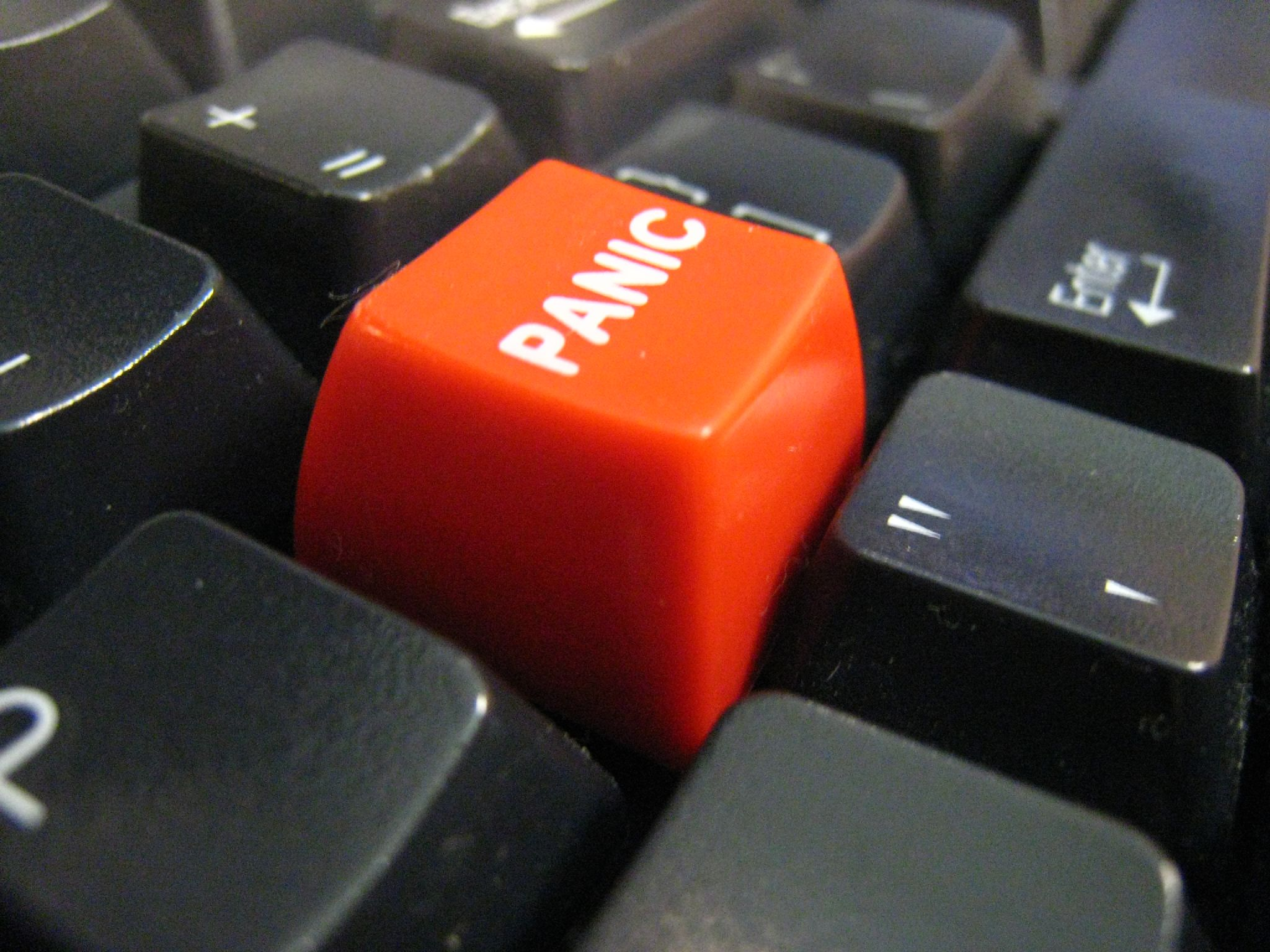 A 'panic button' placed in the middle of a keyboard.